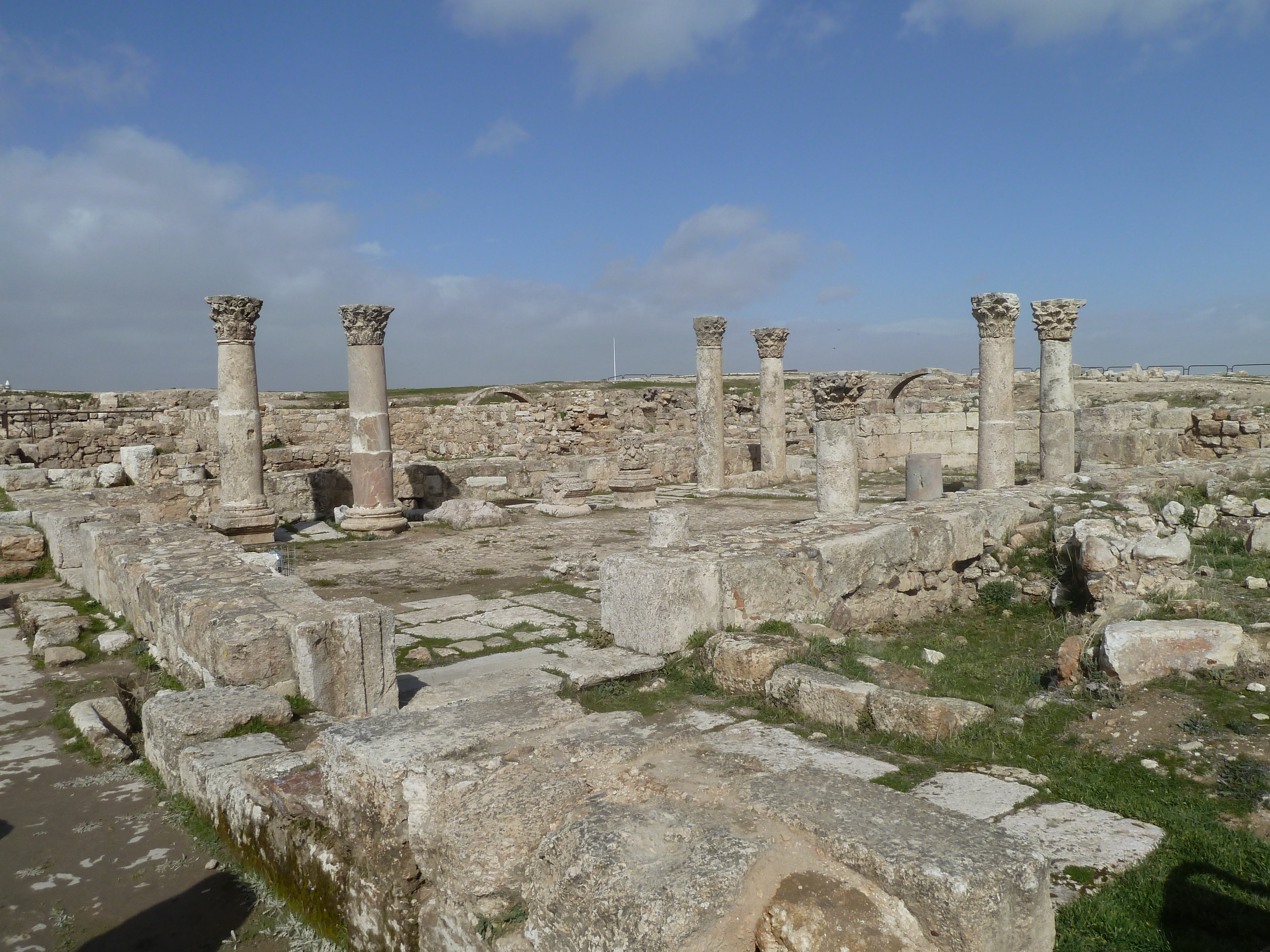 Byzantine Church, built ca. 550 AD, Amman Citadel, Amman, Jordan